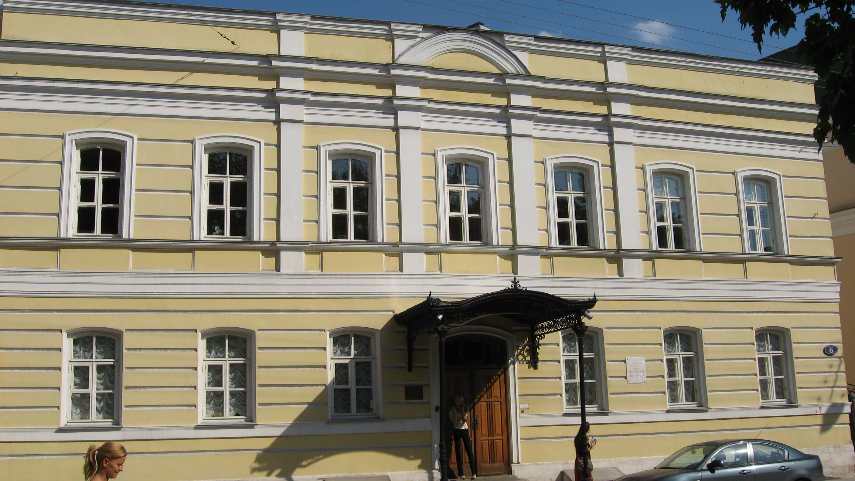 The house of Marina Tsvetaeva in Borisoglebsky pereulok, Moscow